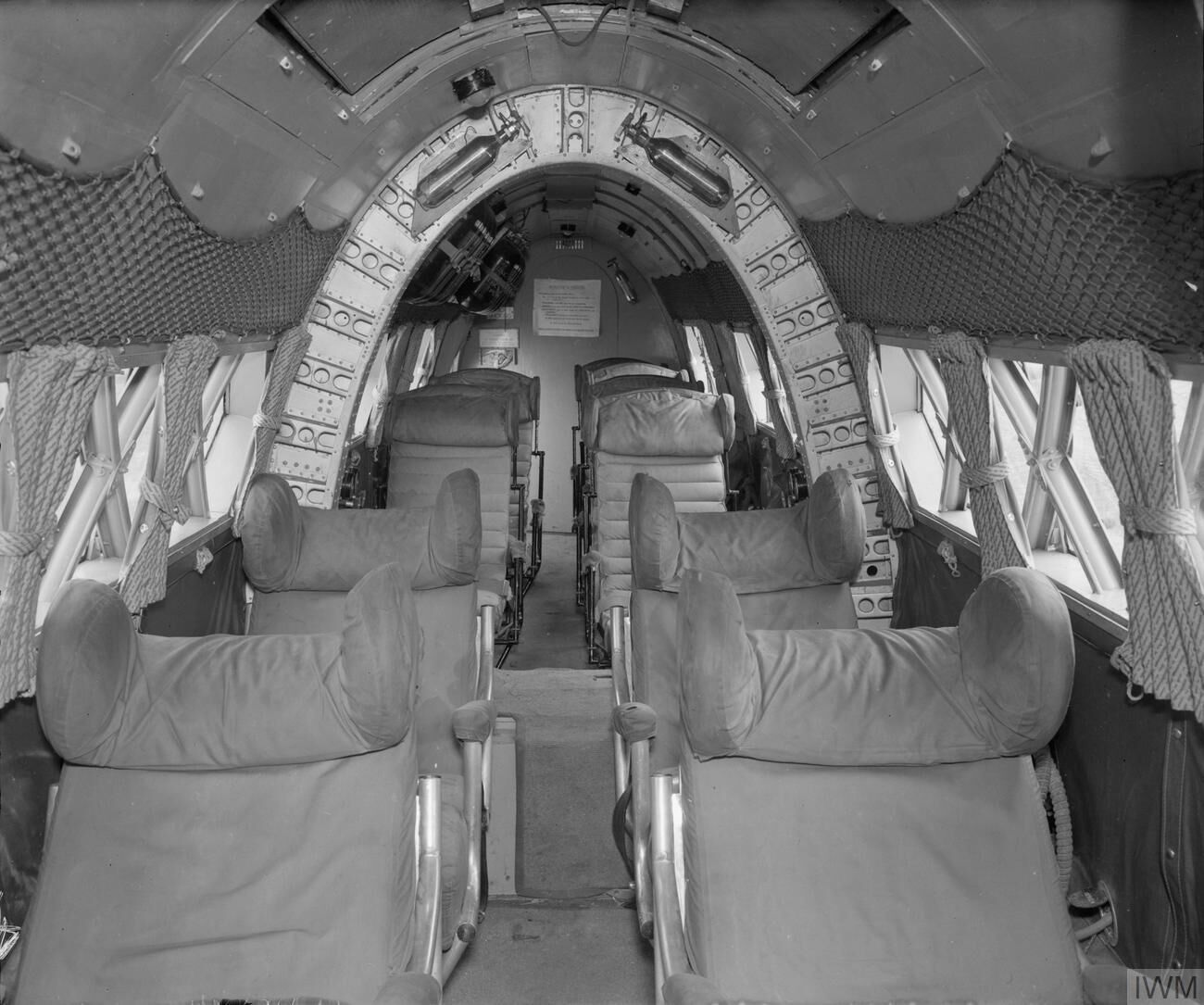 Royal Air Force Transport Command, 1943-1945. Interior of the passenger compartment of a Vickers Warwick C Mark III, looking aft.